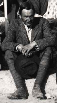 Leonard Woolley at a 1912 excavation in Syria